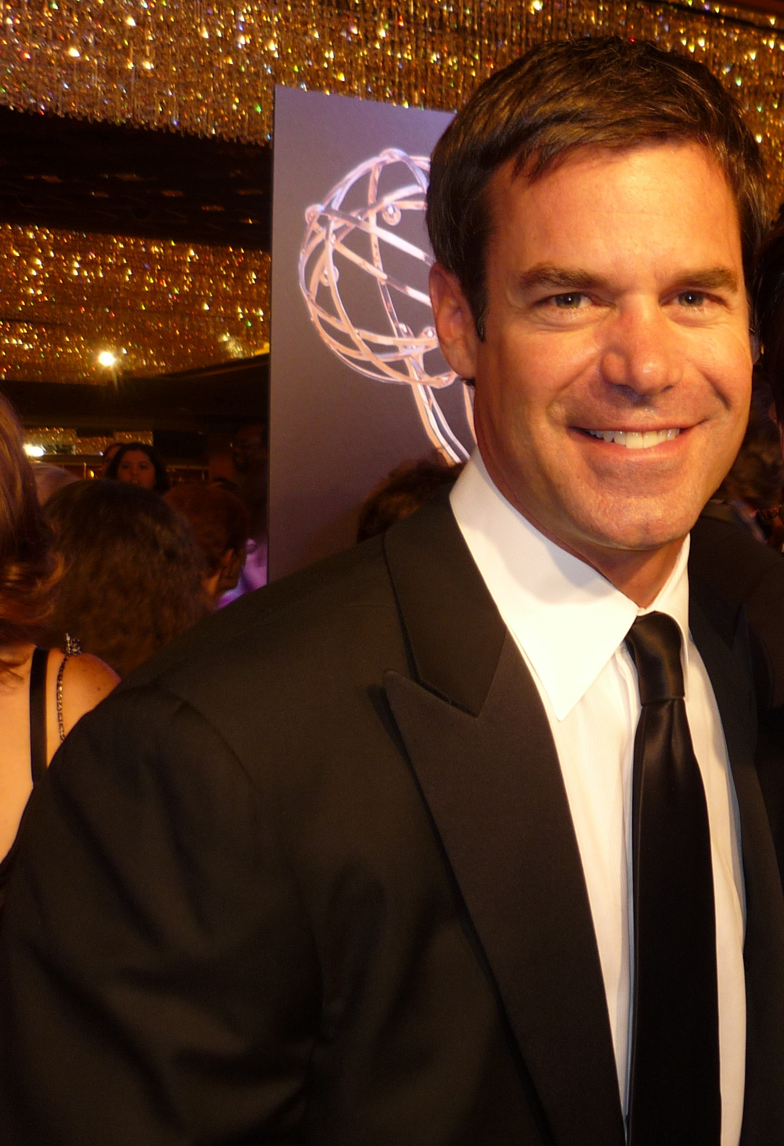 Actor Tuc Watkins at 2010 Daytime Emmy Awards.